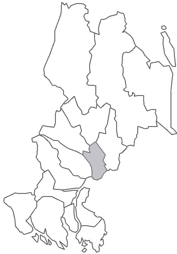 Map describing the location of Vaksala Hundred in Uppsala County, Sweden.